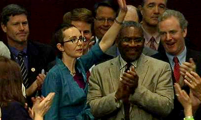 Gabrielle Giffords returns to the House of Representatives on August 1, 2011 for the first time since an attempted assassination on January 8, 2011.